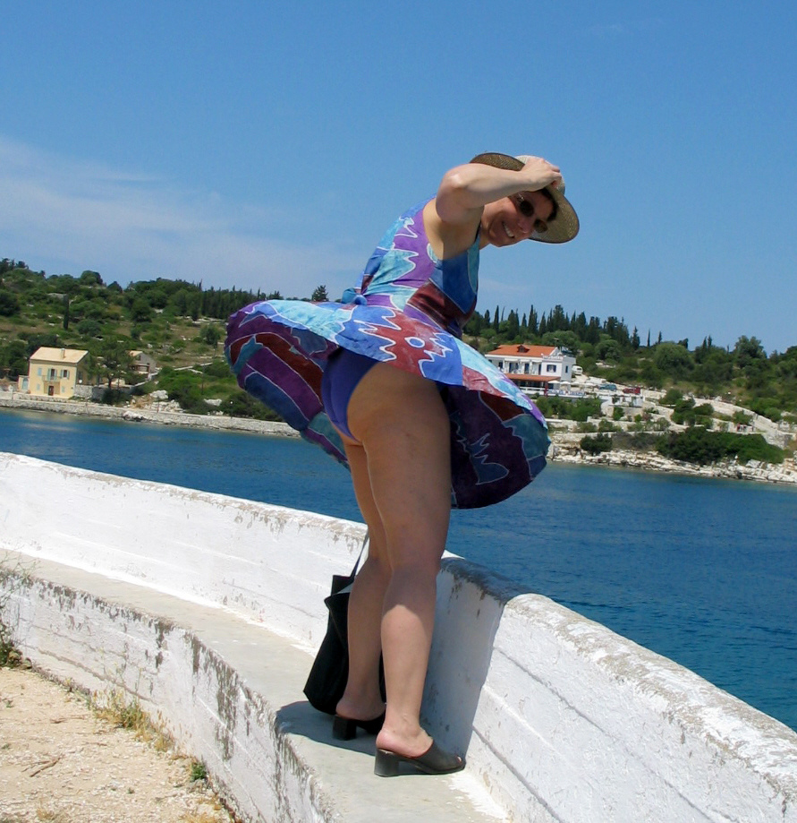 I asked the wife to pose on the sea wall and asked her to put the bloody bag away from her so it wouldn't feature in the picture. Well she stood there motionless and unsmiling while I snapped away when a bit of a breeze picked up. I know this because the last in the series she is still looking bored but has one hand holding her hat. Having finished she walked back along the wall to the bag and as she bent to pick it up so another, much stronger breeze blew with this wonderful result. It was amazing that I was ready to go when this shot presented itself. It was also amazing that her bloody bag, which has blighted so many of my pictures both before and since. finally came in useful for something. I love this picture, not just for her knickers but for the fabulous smile that I have been trying to capture for so long. Some days are just better than others. This was a great one. It would be nice if someone looking at this picture furtively could spare just a few seconds to comment on it as it is my favourite of all my many efforts with a camera. The wife deserves them too. This picture reached 10000 hits on 20/12/11 after 284 days, an average of 35 views per day. Well done Ess. This picture reached 15000 hits on 27/04/12 after 414 days, an average of 36 views per day. Well done again Ess. This picture reached 20000 hits on 17/09/12 after 556 days, an average of 36 views per day. Still my only picture to get 10000 views though that will change soon with 2 pictures about to reach the target. 08/02/13 Today this picture reached 25000 hits after 700 days, and still averages of 36 views per day though It is now one of 4 pictures to get to 10000 views. Excellent darling.